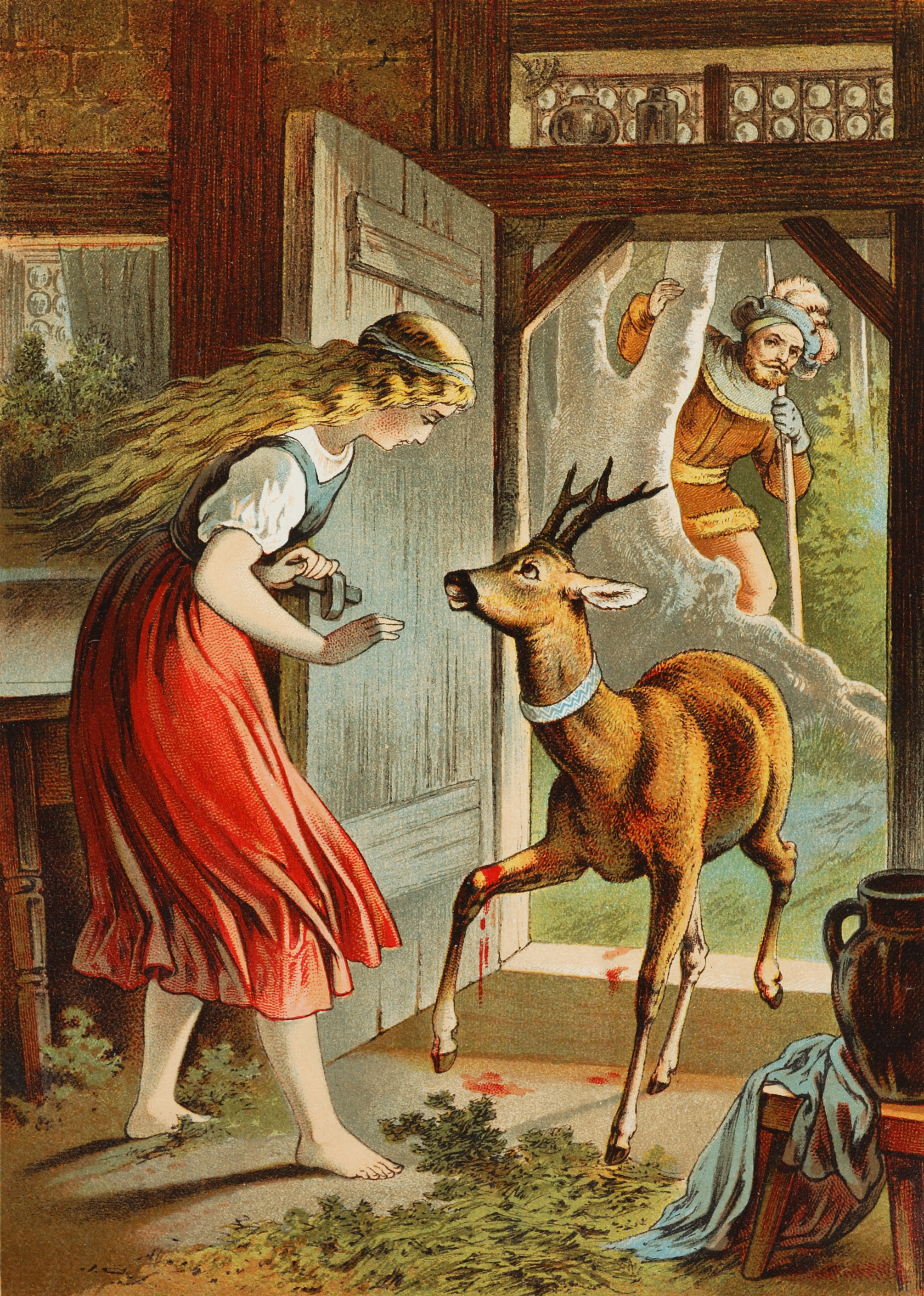 Brother and Sister, illustration by Heinrich Leutemann or Carl Offterdinger